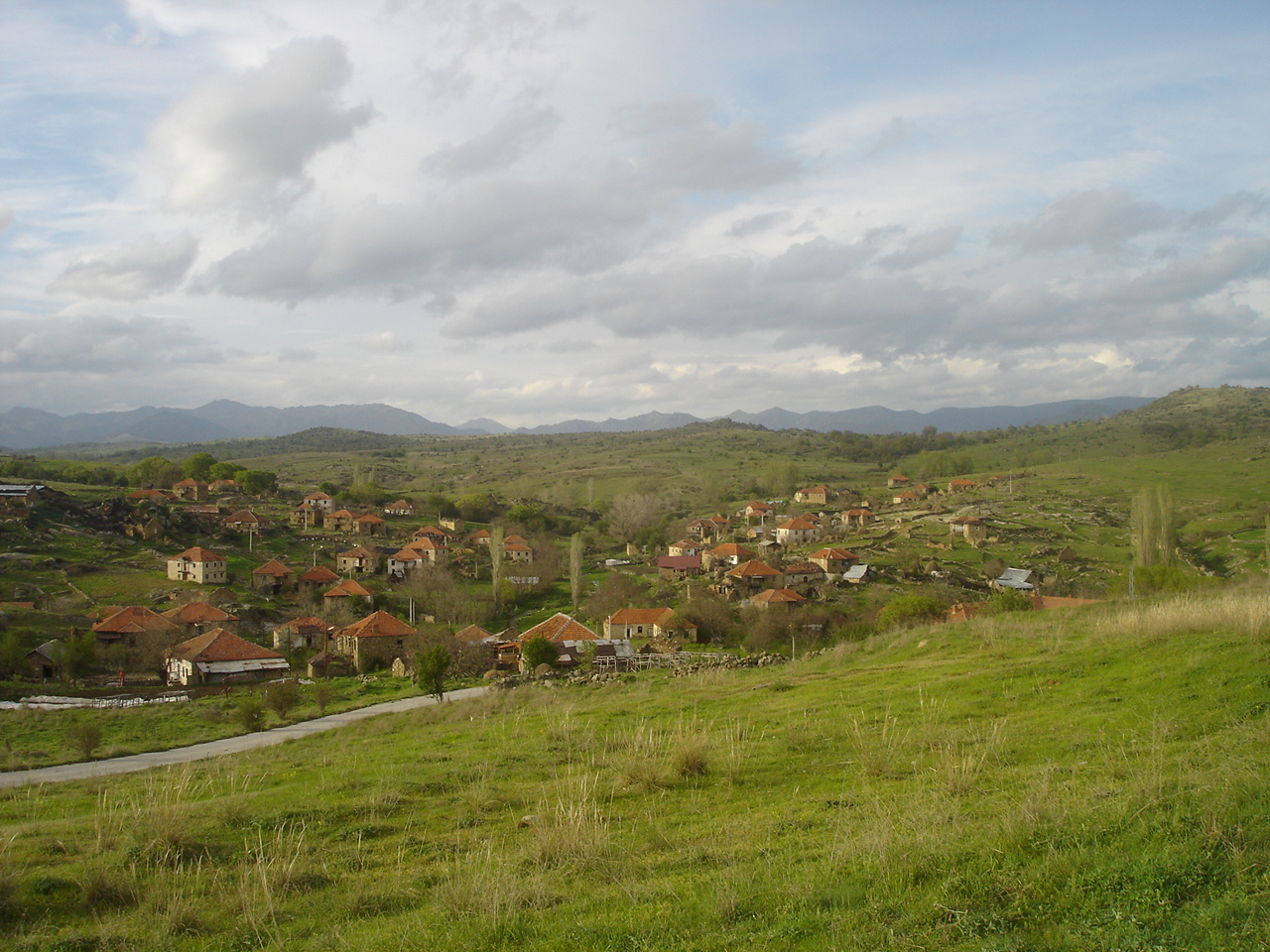 village of Chanishte in Mariovo region, Macedonia